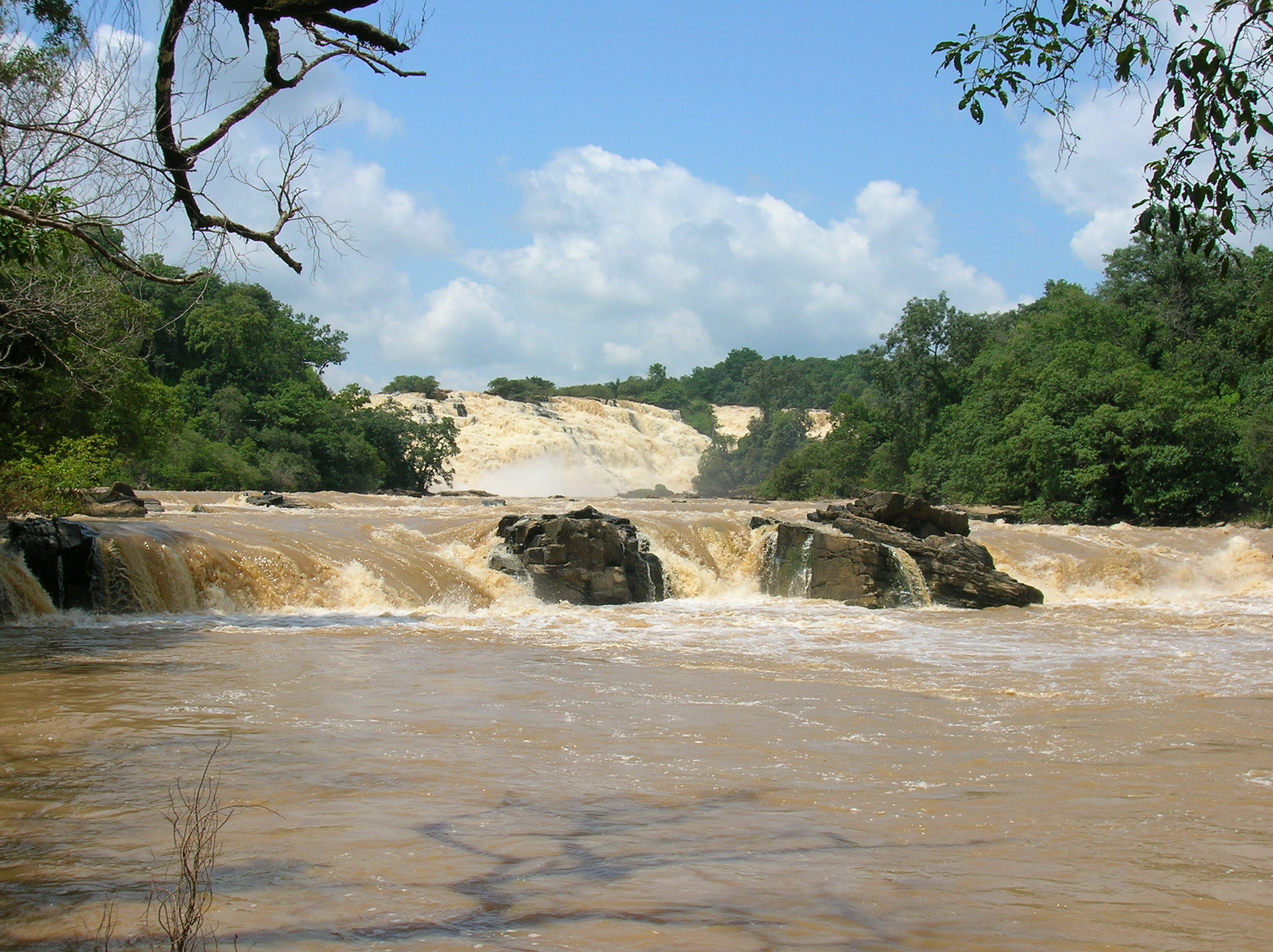 Gurara Falls on the Gurara River in Niger State, Nigeria